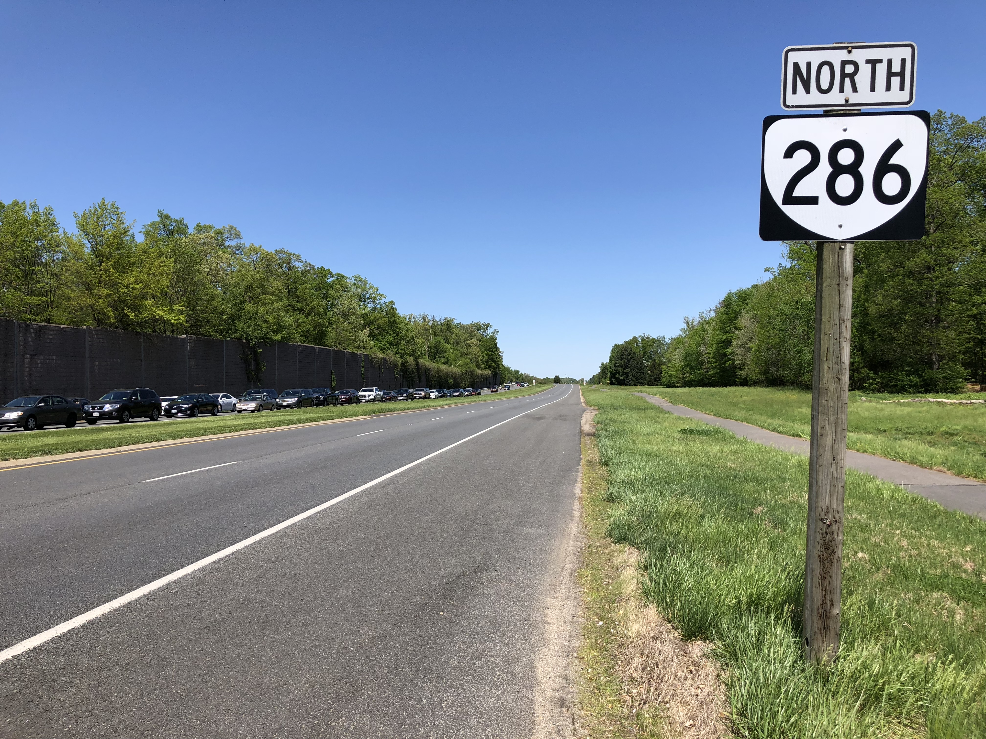 View north along the Virginia State Route 286 (Fairfax County Parkway) just north of Virginia State Route 6819 (Franklin Farm Road) in the Franklin Farm section of Oak Hill, Fairfax County, Virginia